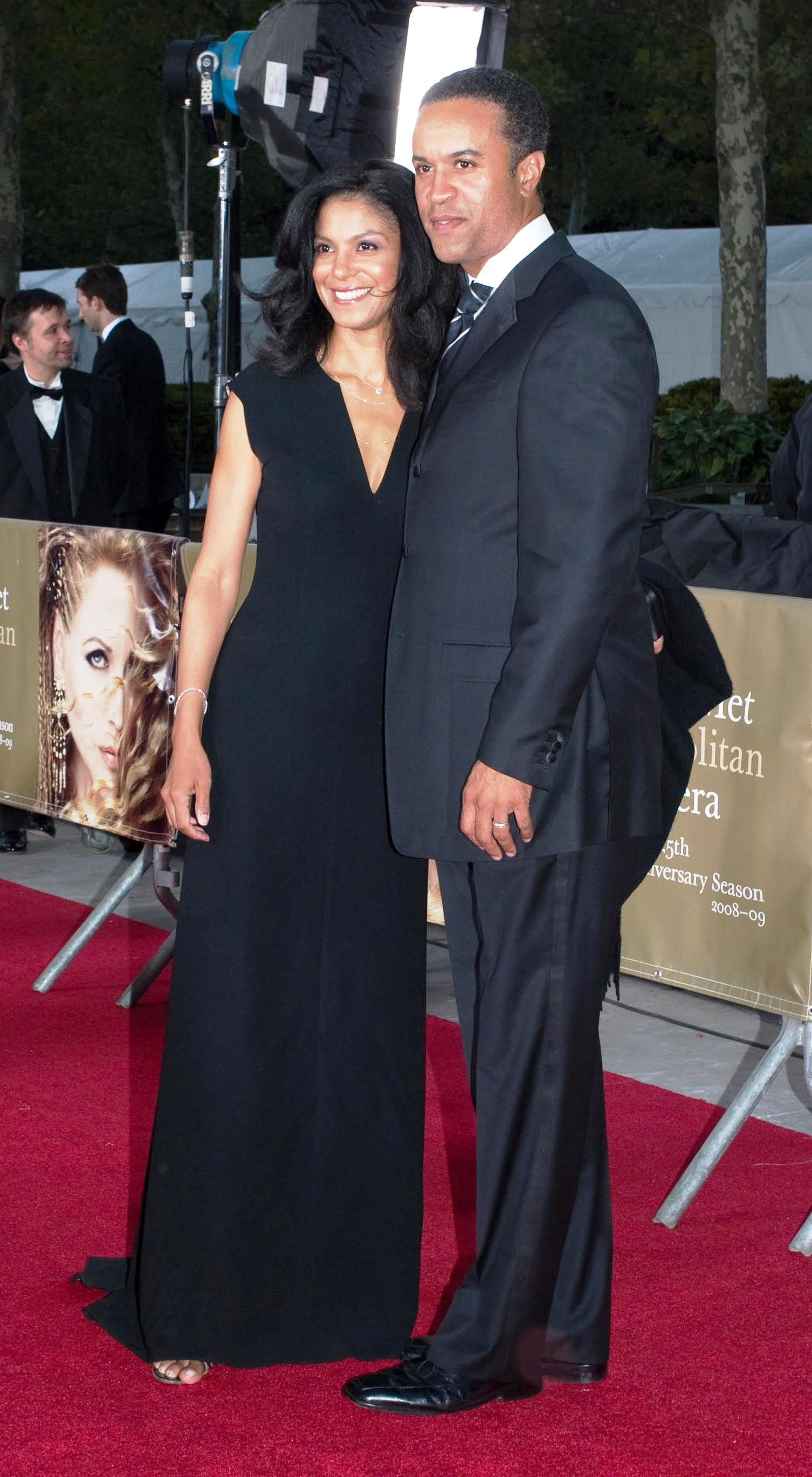 Marcus DuBois and wife Andrea at the Metropolitan Opera opening in 2008. © Rubenstein, photographer Martyna Borkowski